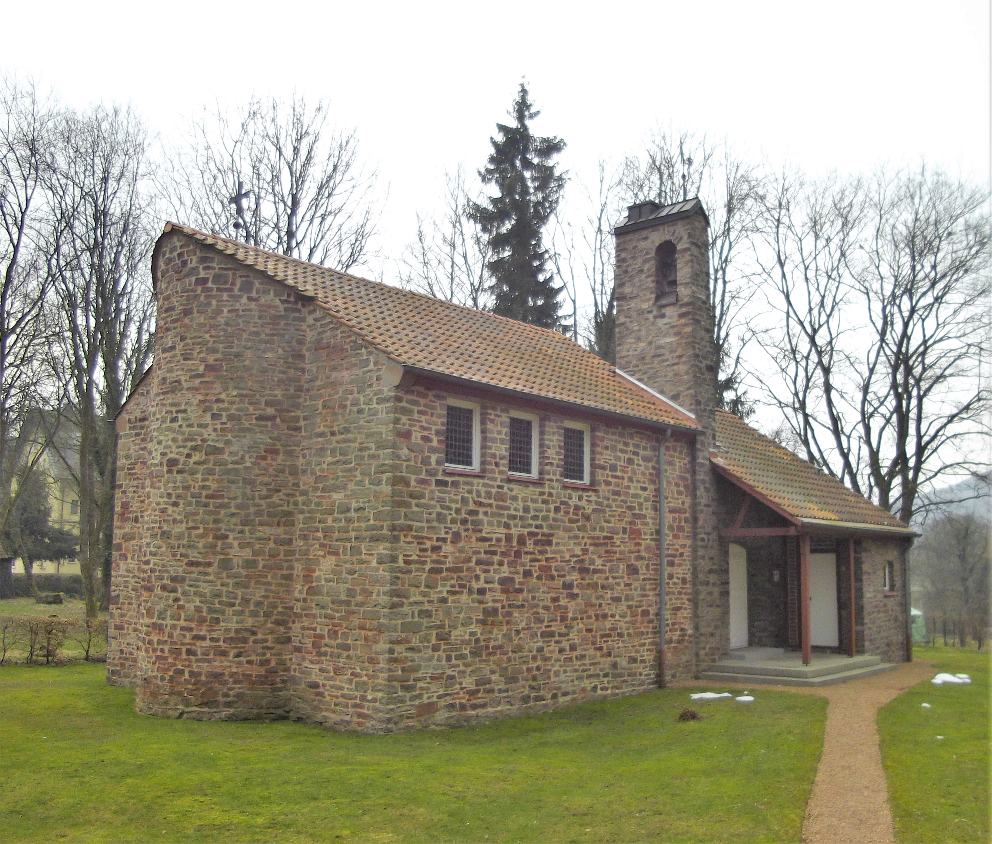 Exterior of the protestant church in Bierfeld, Saarland